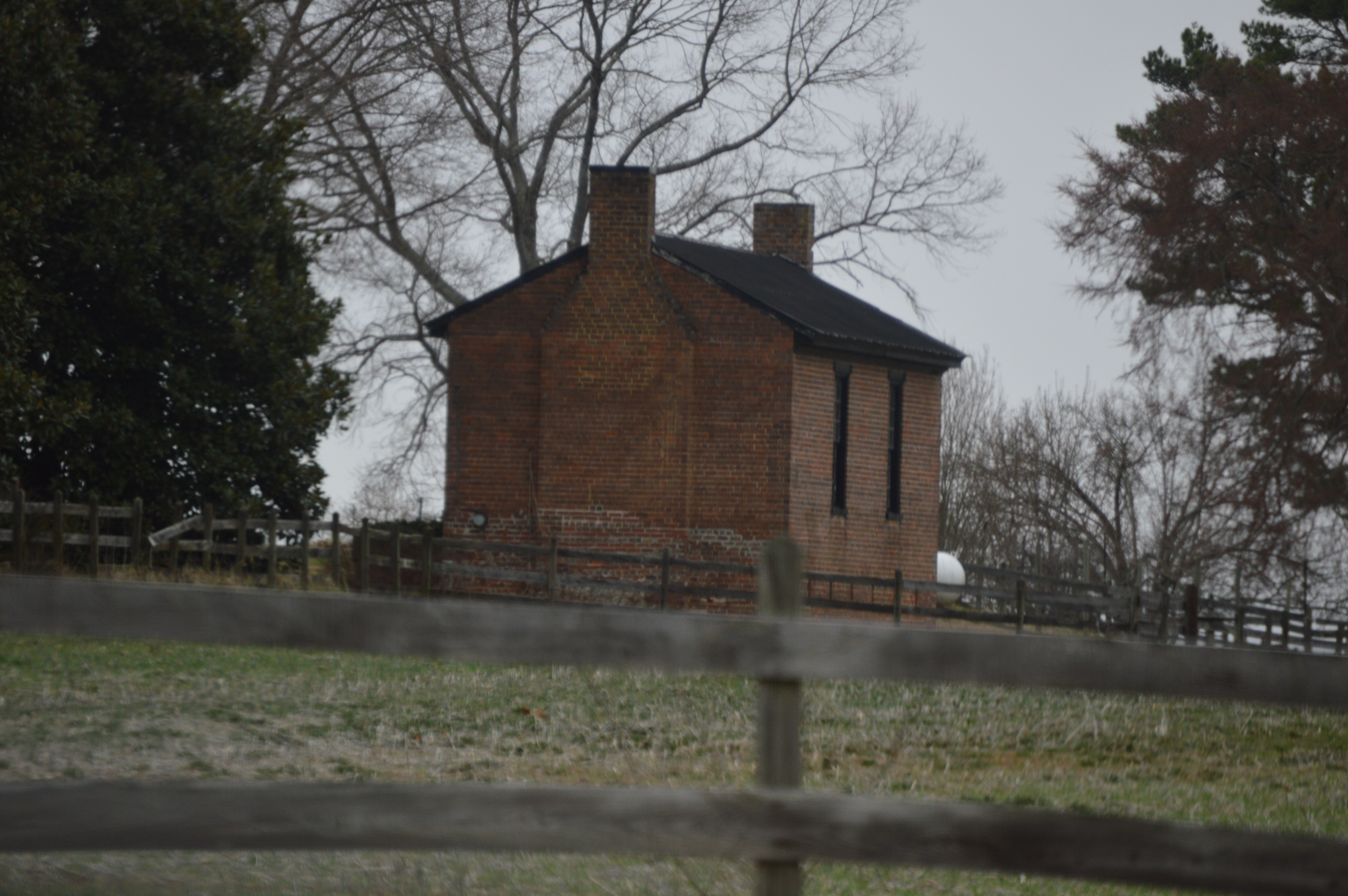 Roadside view of the kitchen at Bloomsburg, the Watkins House, located at 9000 U.S. Route 58 just northeast of Turbeville in Halifax County, Virginia, United States. Most of the complex, excluding all roadside buildings but including the kitchen and many buildings not visible from the public highway, is listed on the National Register of Historic Places.